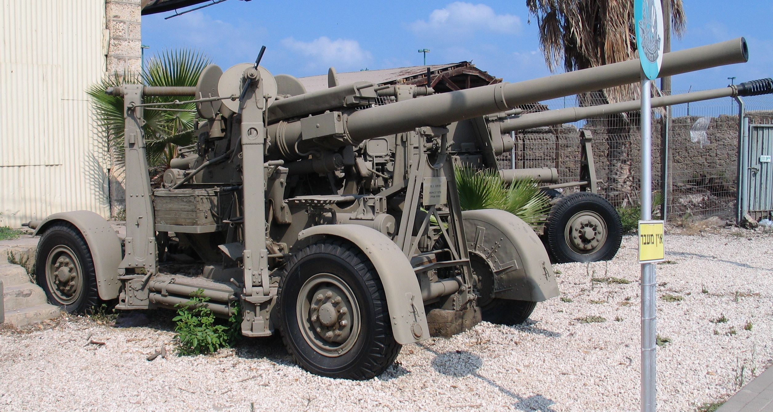 QF 3.7 inch AA gun in Batey ha-Osef Museum, Tel Aviv, Israel.